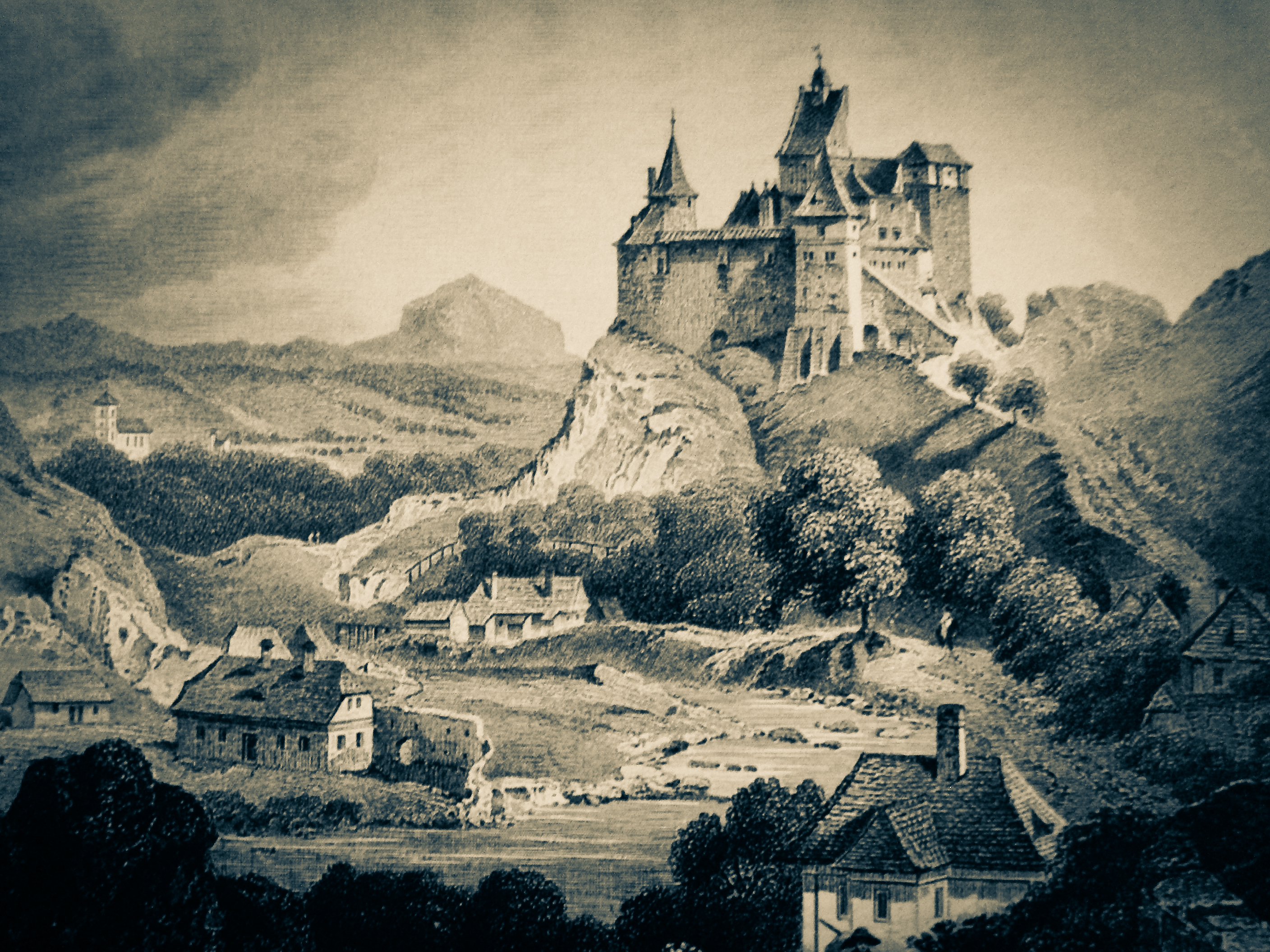 Bran by Ludwig Rohbock